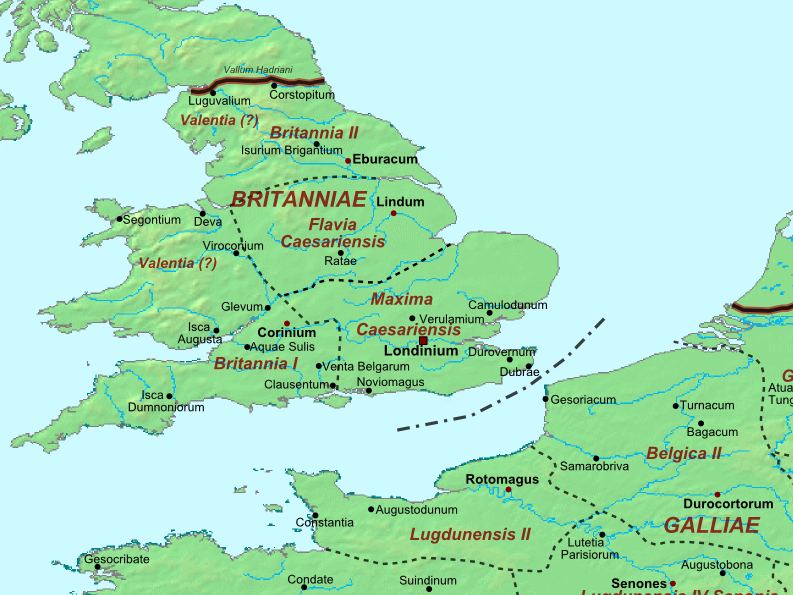 An inaccurate map with haphazard and unsourced placement of Valentia. Not to be used.